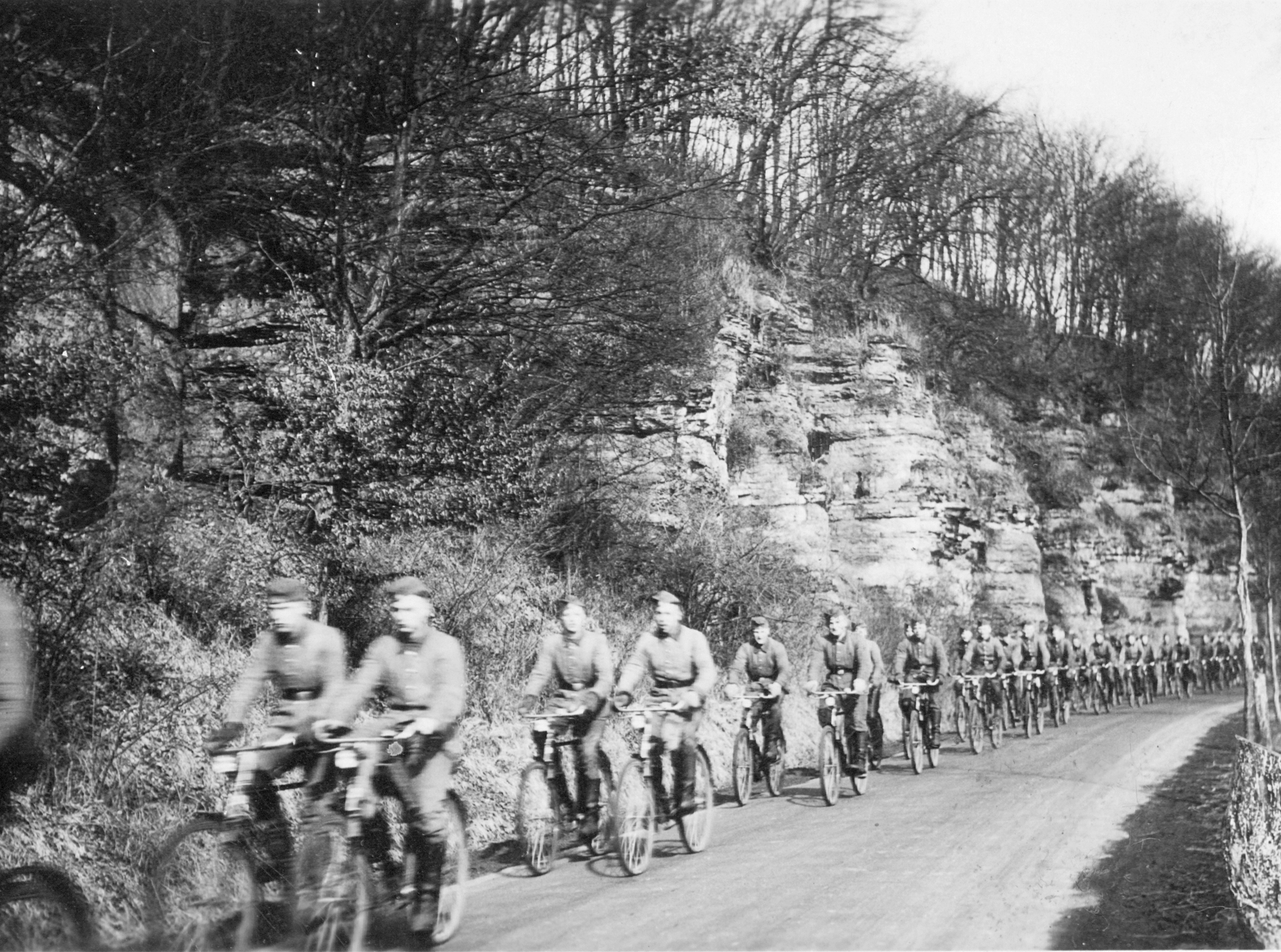 The exact date and place is unknown. Picture was taken by my grandfather.